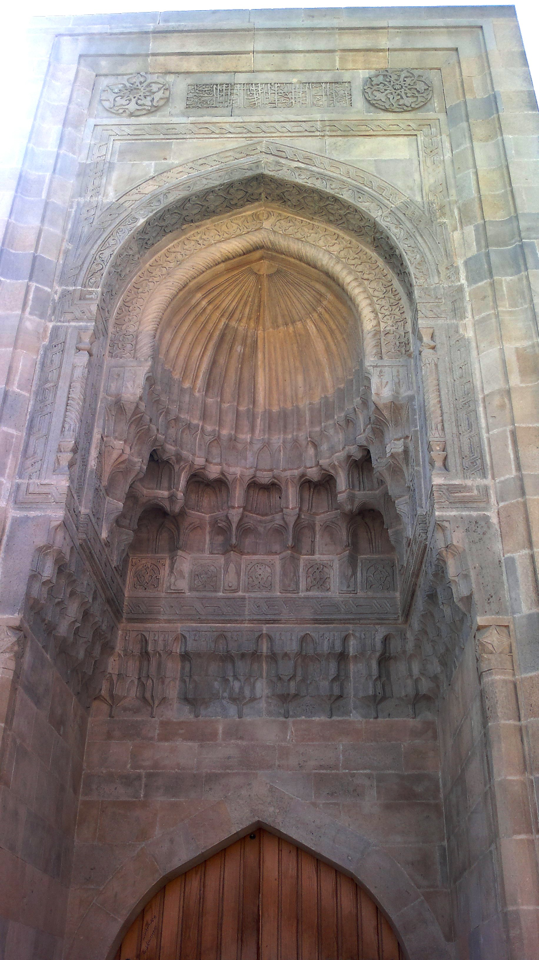 Eastern Portal of Palace of Shirvanshahs